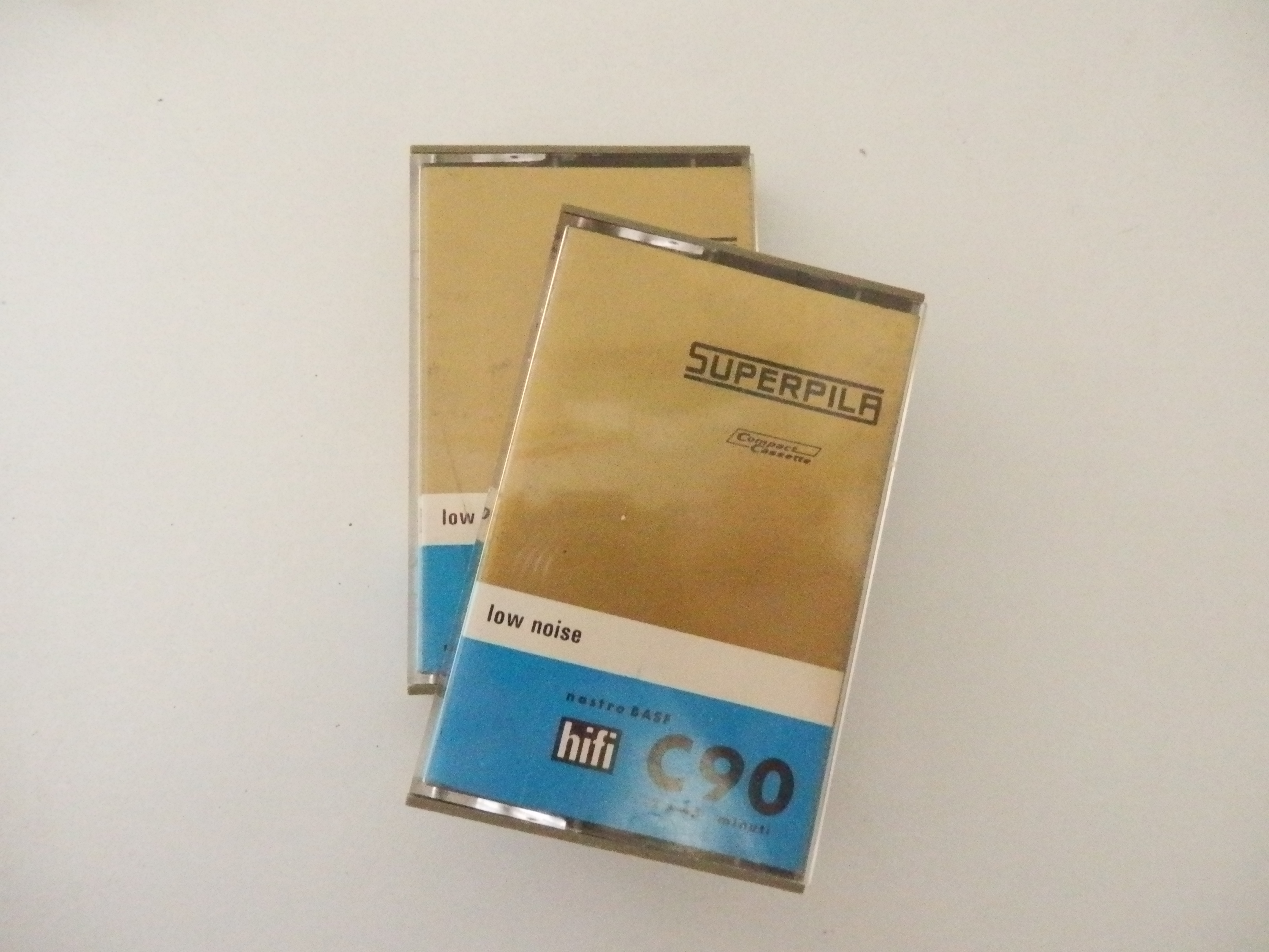 Italian Compact Cassettes Superpila (BASF tape) ca. 1974-1975